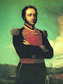 General Gregorio MacGregor, oil on canvas, 130.2 × 98 cm (51.2 × 38.5 in), Paris.